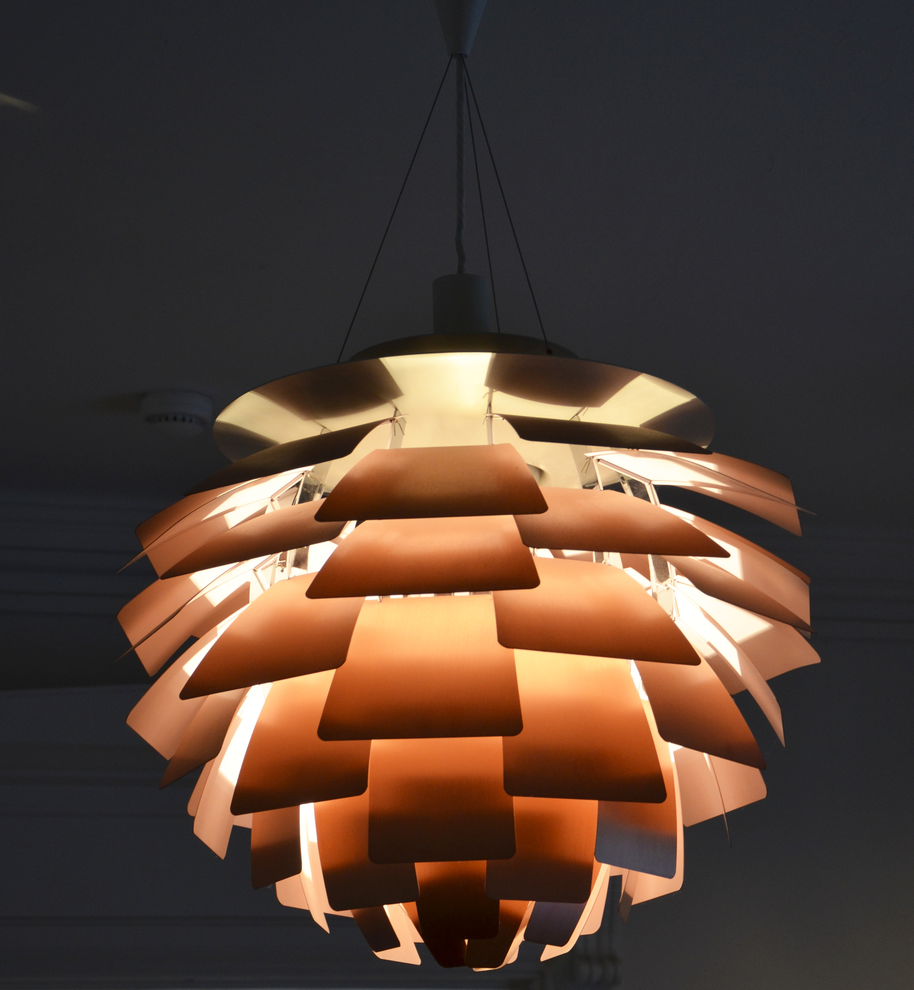 Artichoke, lamp by Poul Henningsen